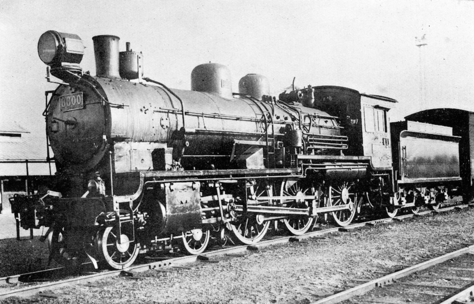 Picture of JGR's 8800 type steam locomotive